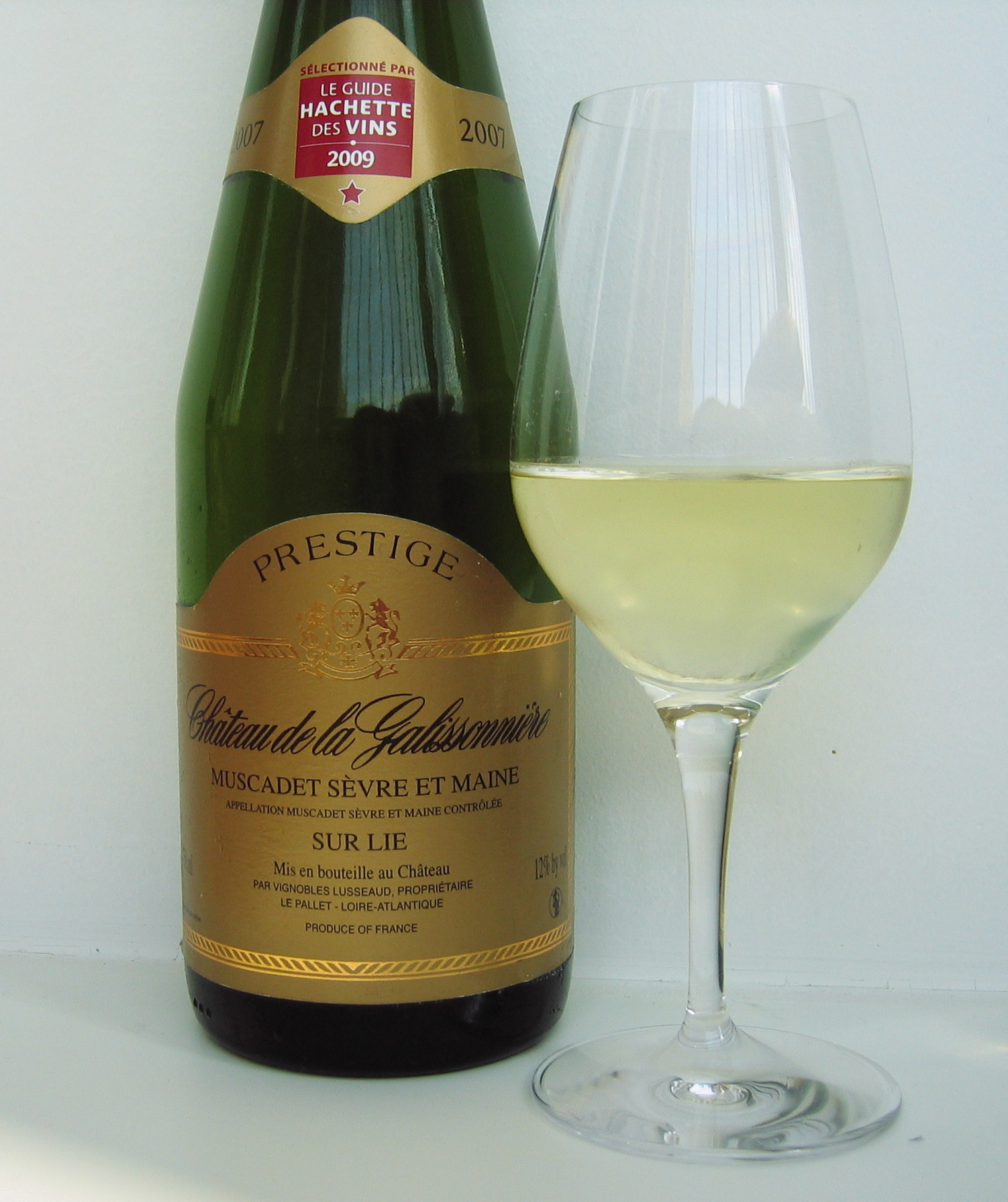 Château de la Galissonnière Prestige 2007, a Muscadet Sèvre et Maine sur lie, a white wine from the Pays Nantais subregion of the Loire Valley.